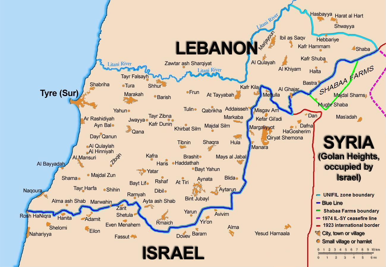 Map showing the Blue Line demarcation line between Lebanon and Israel, established by the UN after the Israeli withdrawal from southern Lebanon after its short 1978 invasion called Operation Litani. It follows the 1949 cease-fire line, also known as the Green Line, as well as the somewhat contested Lebanese-Syrian border towards the Israeli-occupied Golan Heights.